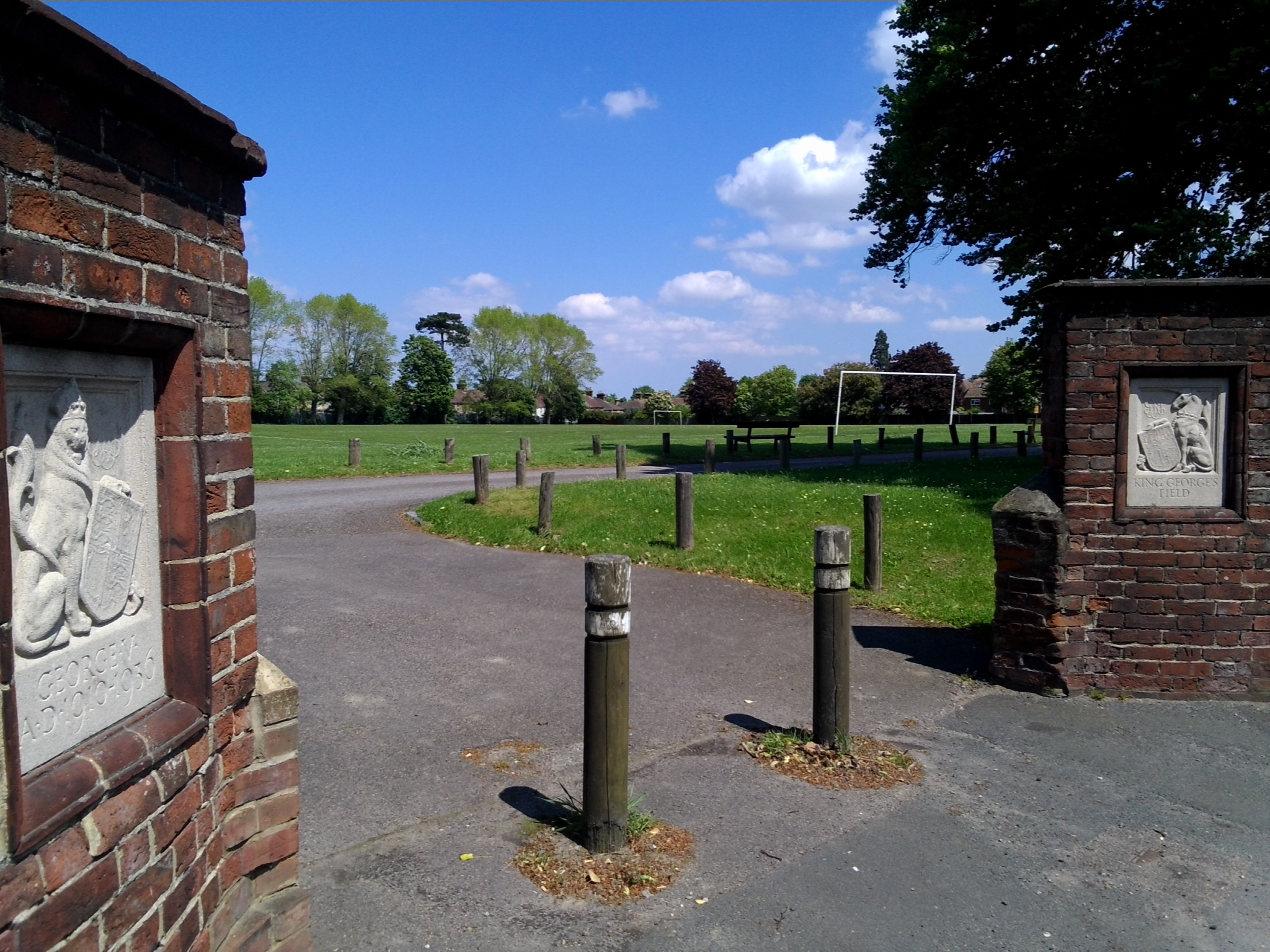 The entrance to the King George's Field (part of the former Mount Field on London Road, Ospringe, Faversham, Kent, England.